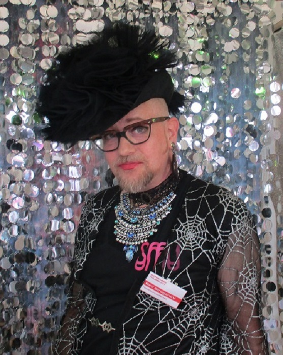 Drag Queen BeV StroganoV works for Gay Museum Berlin. Here at Queer Streetfair Berlin June 2018.